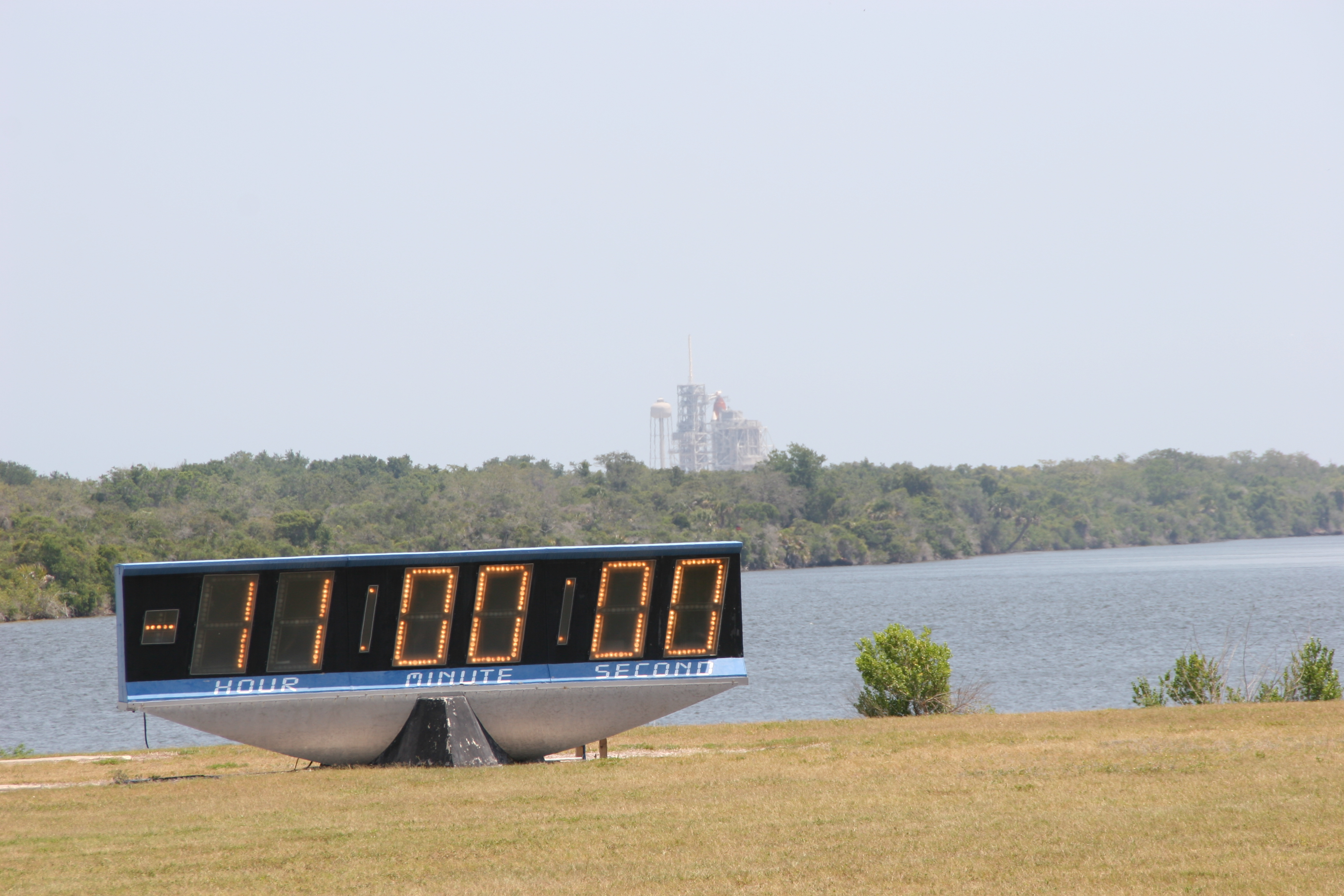 Countdown clock at NASA's Kennedy Space Center at L-1 (28 April 2011) of STS-134. Space Shuttle Endeavour, still being hidden by the so-called Rotating Service Structure, is visible in the background.